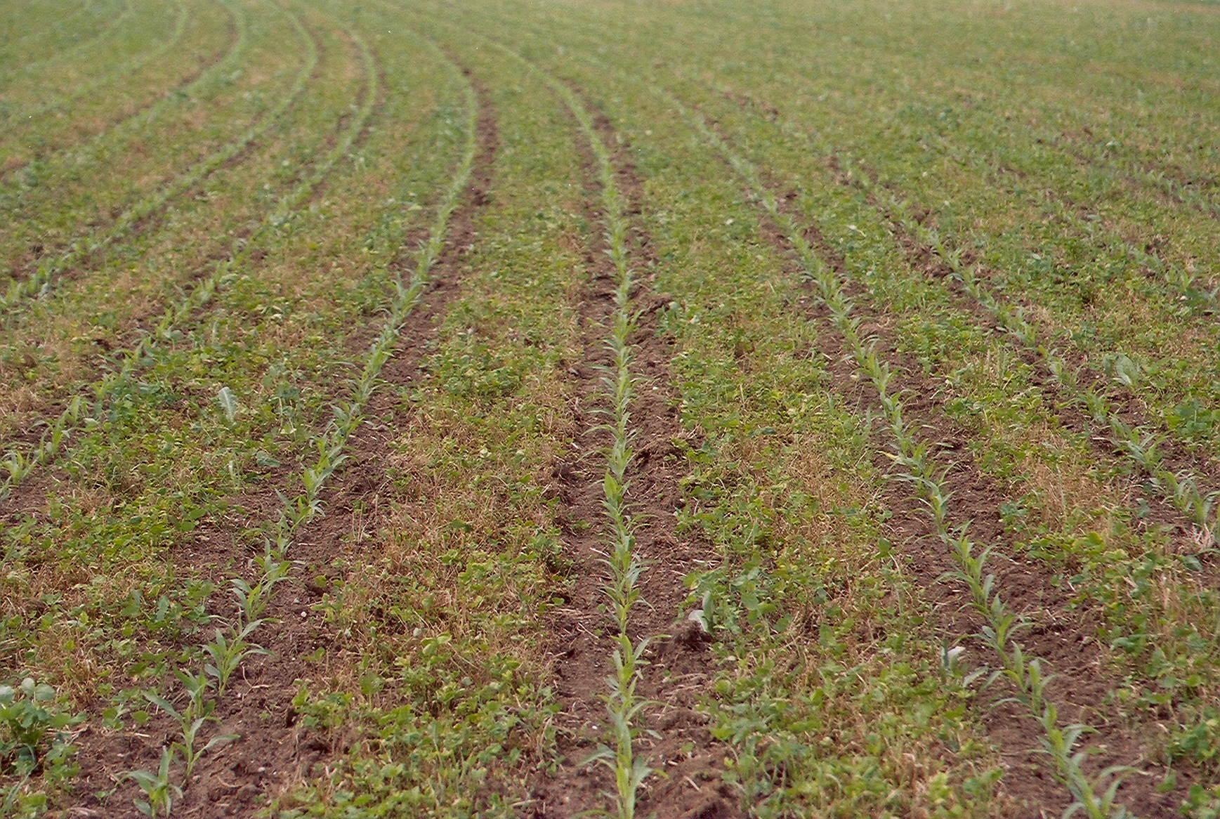 Cornfield, canton of Bern, Switzerland, the ground was only tilled were plants were seeded